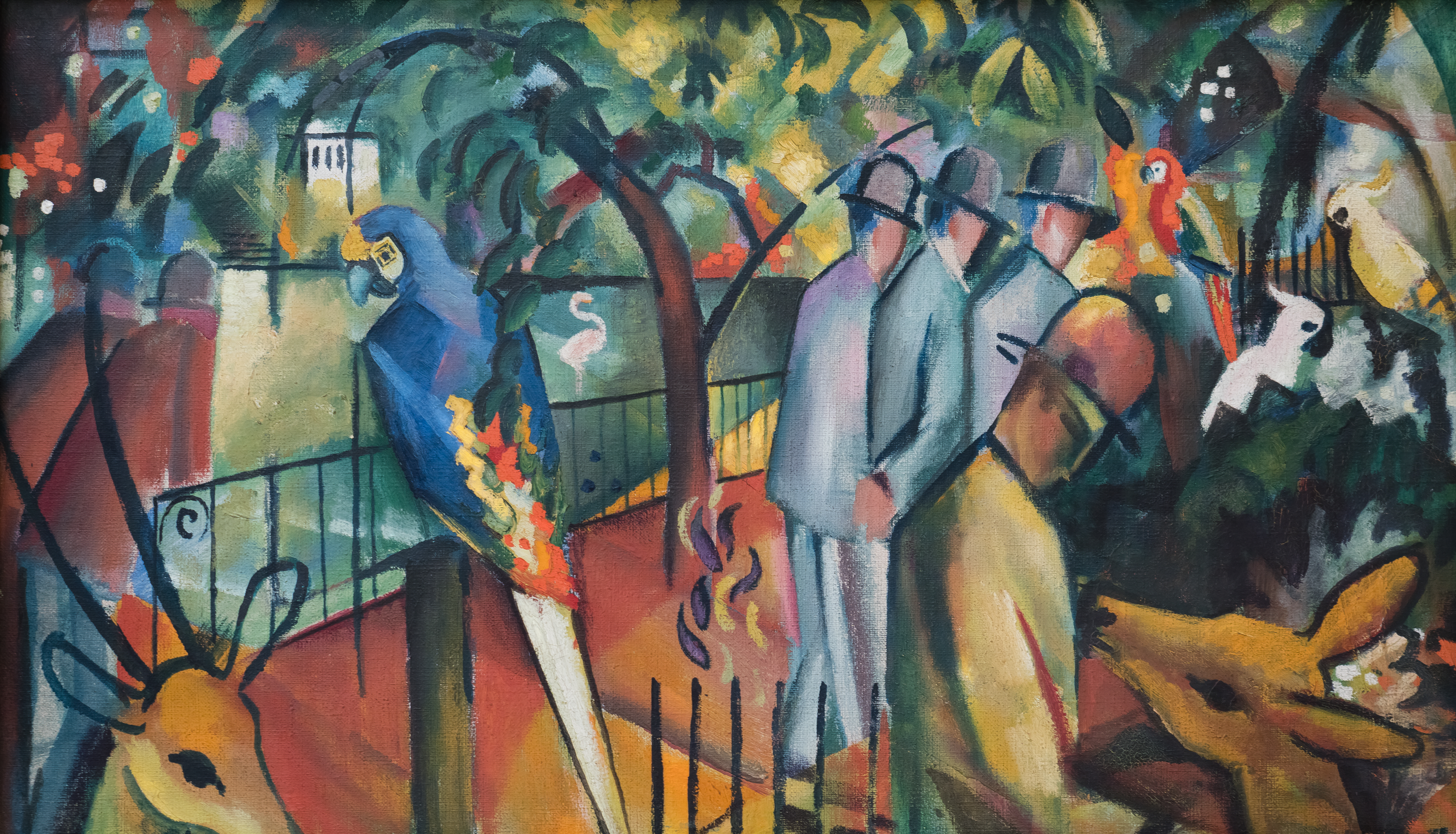 August - Macke Zoological Garden I. 1912